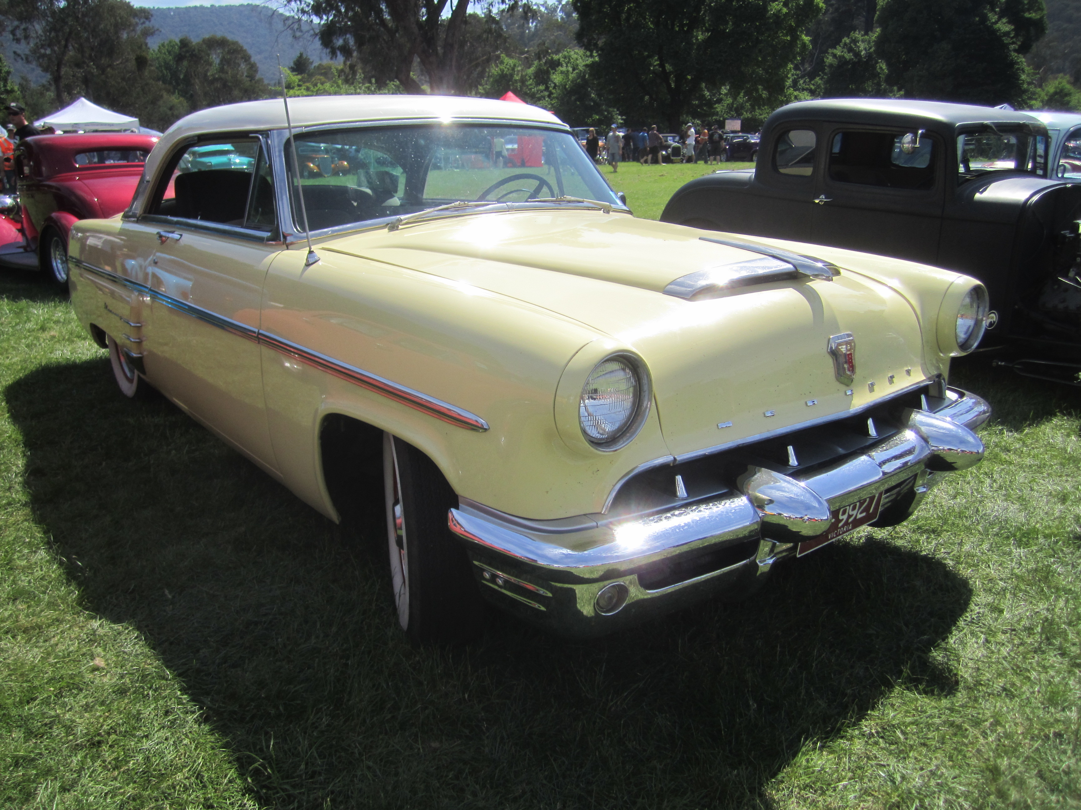 The Monterey was built from 1950-74 but the first generation until 1956 starting out as just a high end Coupe- similar to Fords Crestliner and Lincolns Capri. In 1952 the Sedan and Convertible were also made. Engine; 255 cu in Flathead V8